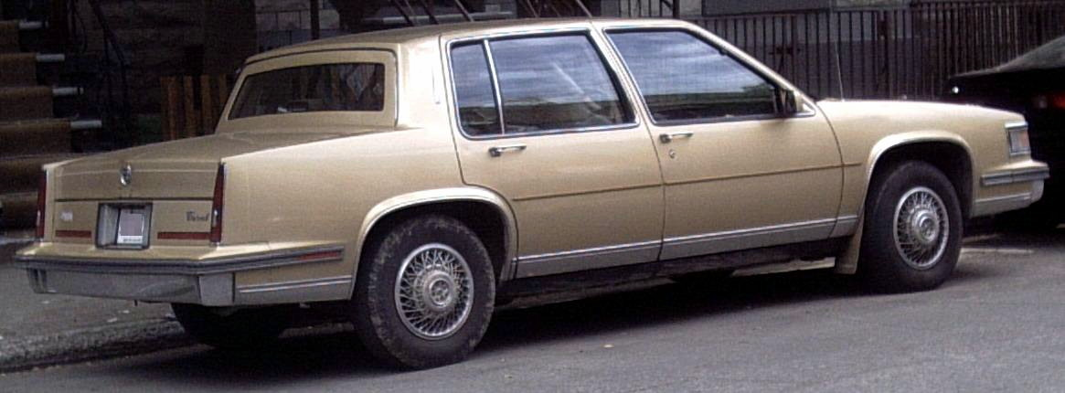 1985-1992 Cadillac Fleetwood photographed in Montreal, Quebec, Canada.